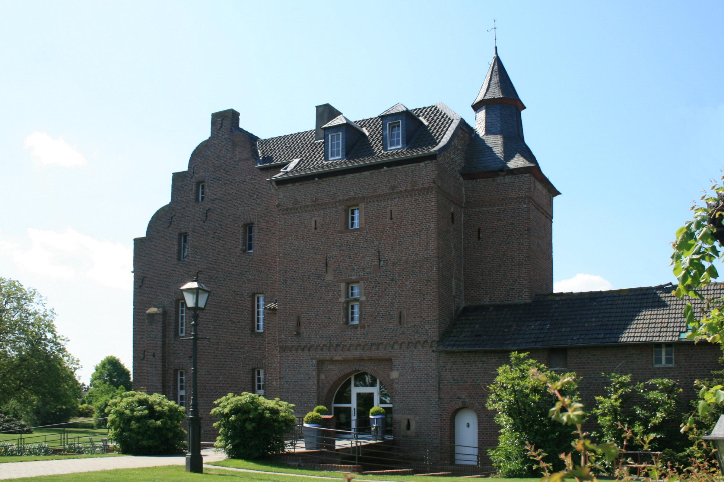 Cultural heritage monument No. 7 in Niederzier